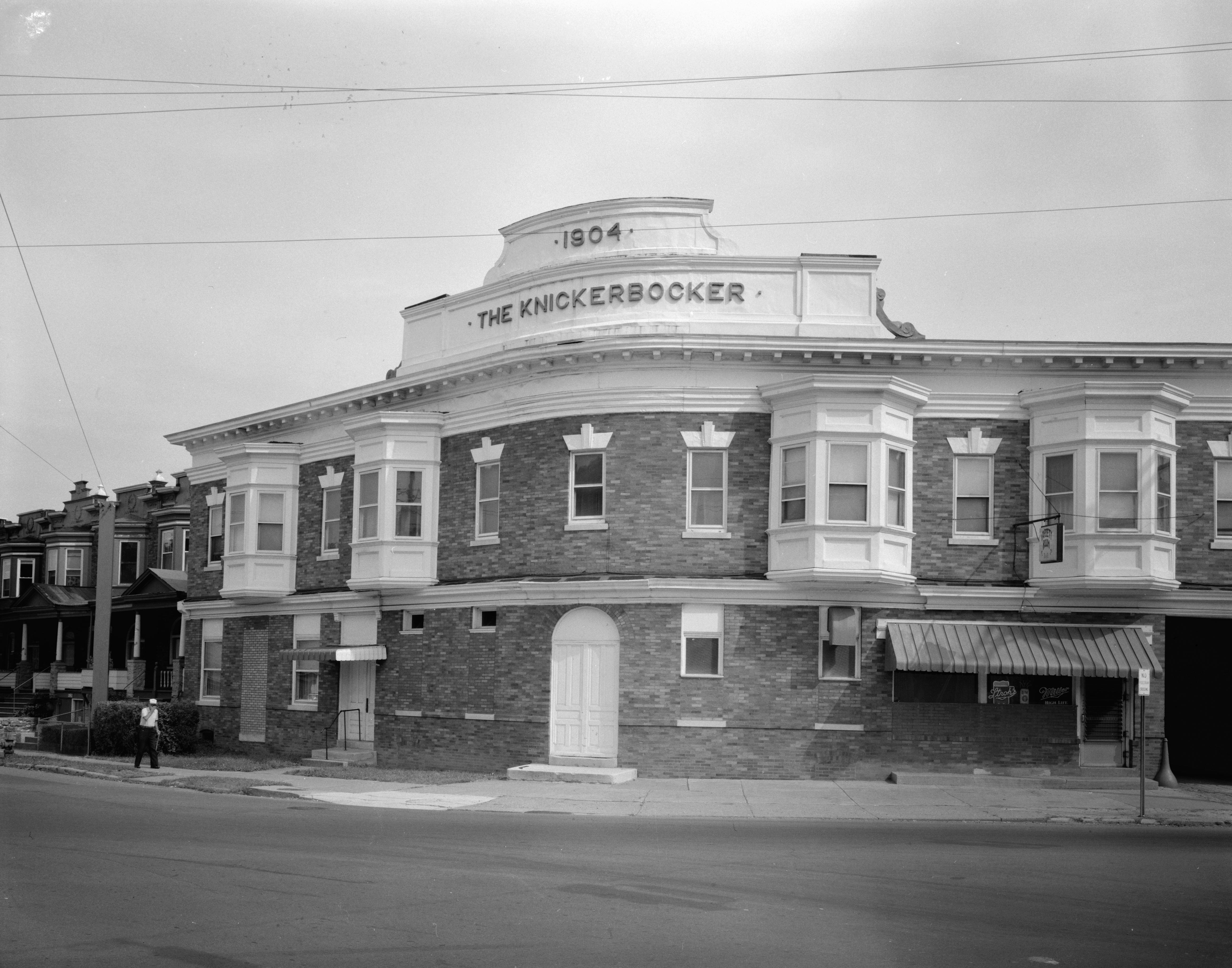 Front of the Knickerbocker Rowhouse Complex, located at the intersection of Sixth Avenue and Burgoon Road in Altoona, Pennsylvania, United States. Built in 1904, the rowhouse is part of the Knickerbocker Historic District, a historic district that is listed on the National Register of Historic Places.